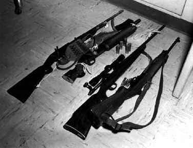 Charles Whitman's rifles and sawed off shotgun taken to the tower.